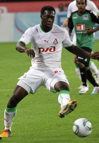 Felipe Caicedo with FC Lokomotiv Moscow.